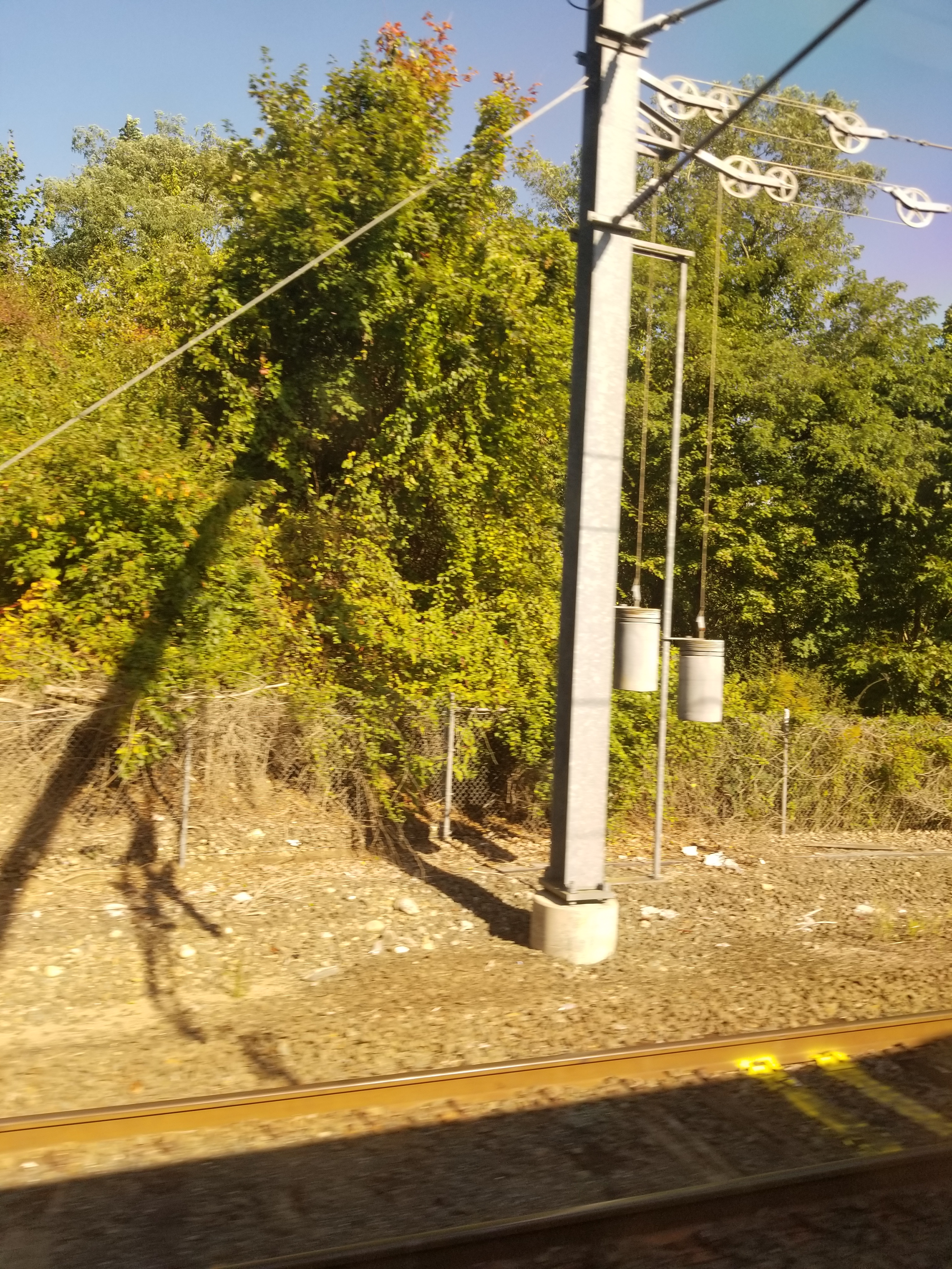 A catenary pole with balancing weights on Amtrak's NEC